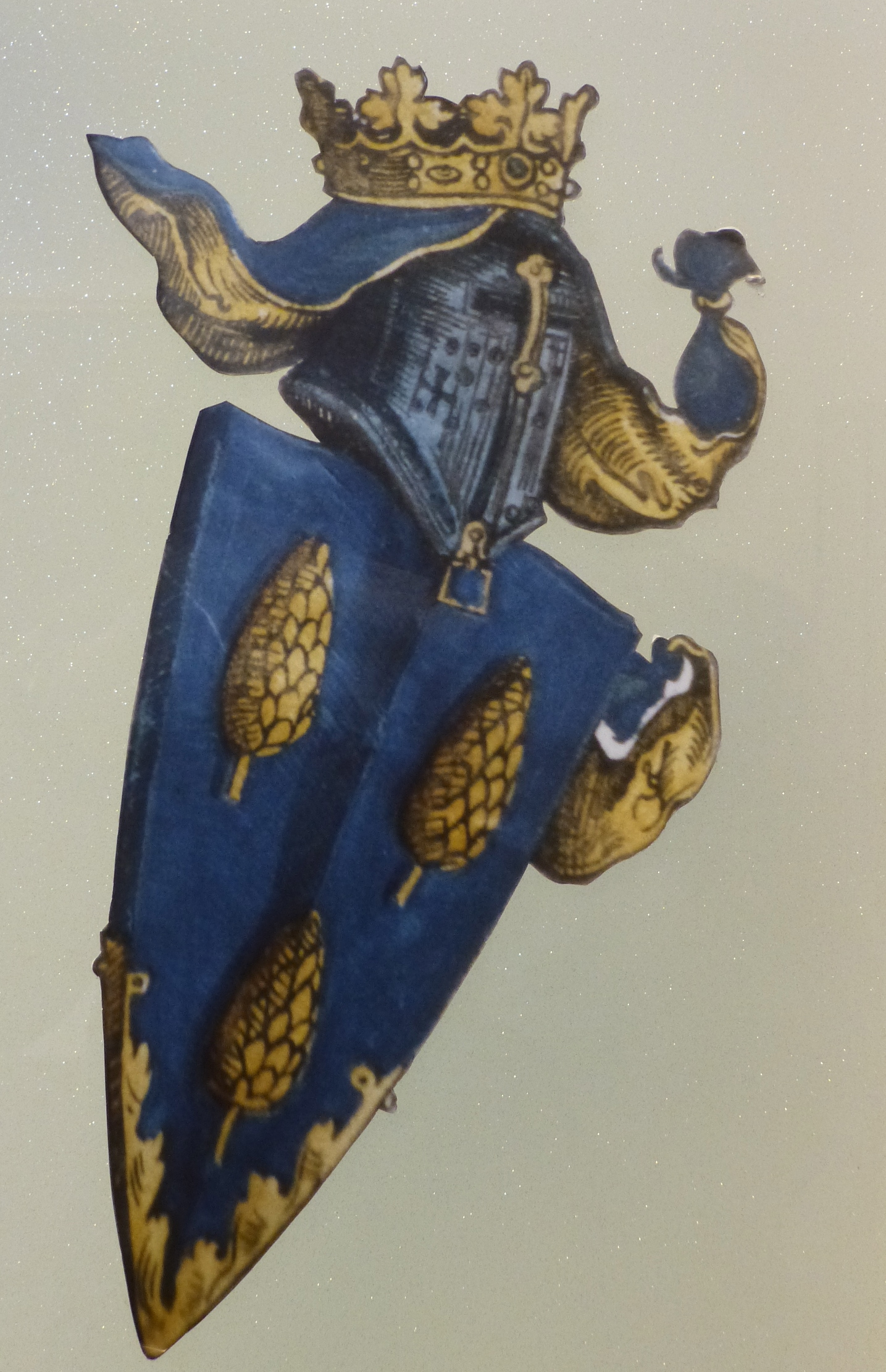 coat of arms of the family "Tanne"